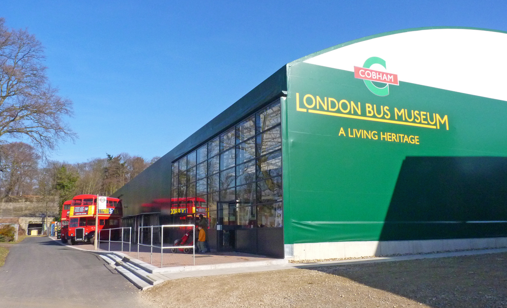 London Bus Museum at Brooklands, Data from Geograph: Description: This museum was founded in 1972 in a former WW2 aircraft factory, now demolished, in Cobham, Surrey. Now in a brand new facility named Cobham Hall, the museum is within the Brooklands Museum complex. The museum has examples of... more ICBM: 51.355642136628, -0.46430677472814 Location: (about 2 km from) near to Byfleet, Surrey, Great Britain.